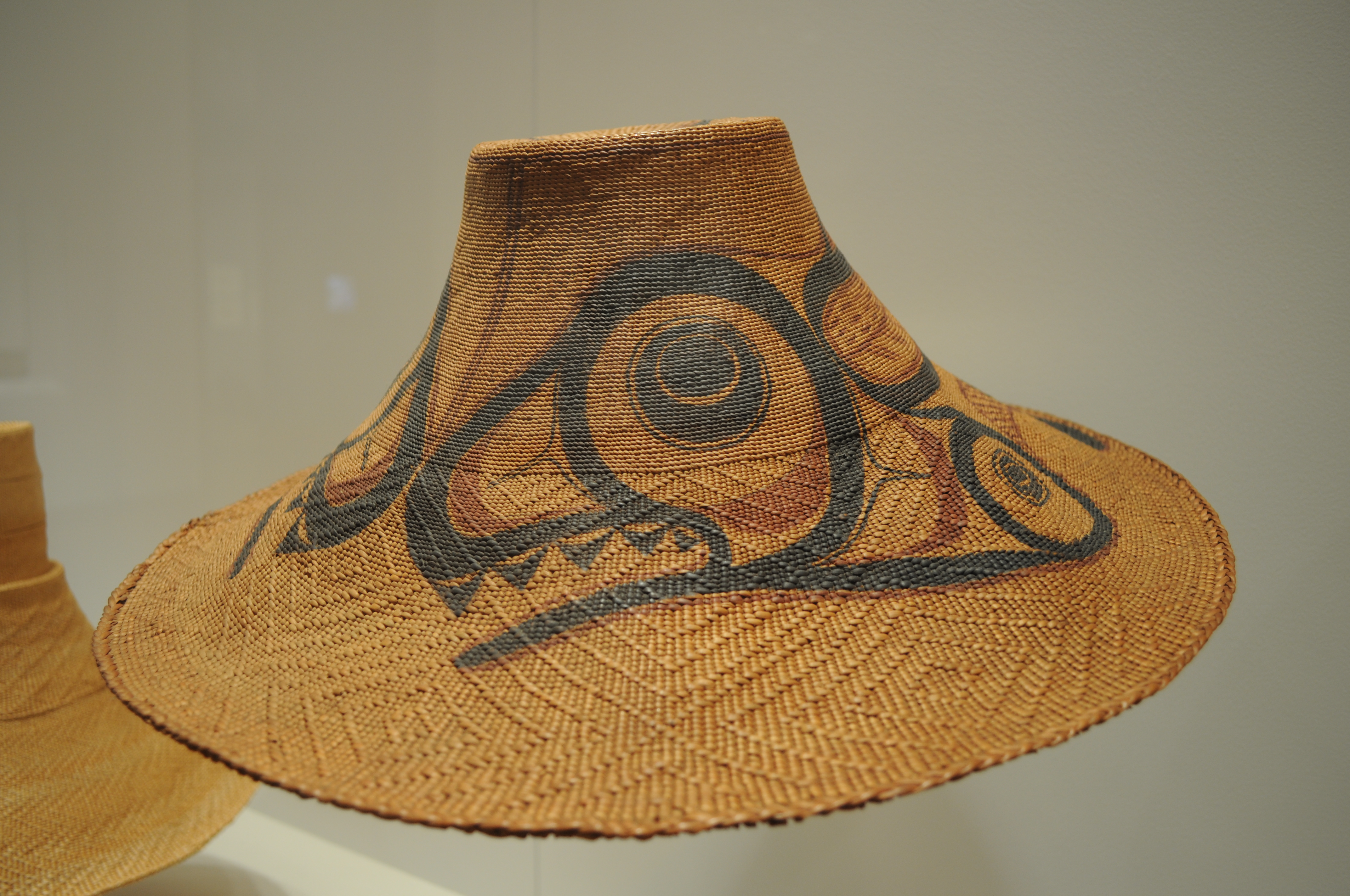 Painted woven hat